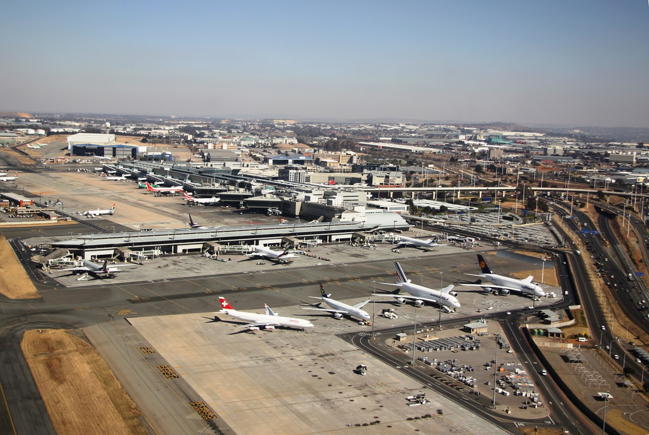 Oliver Tambo Airport surrounded by different modes of transportation and businesses - forming an Airport City